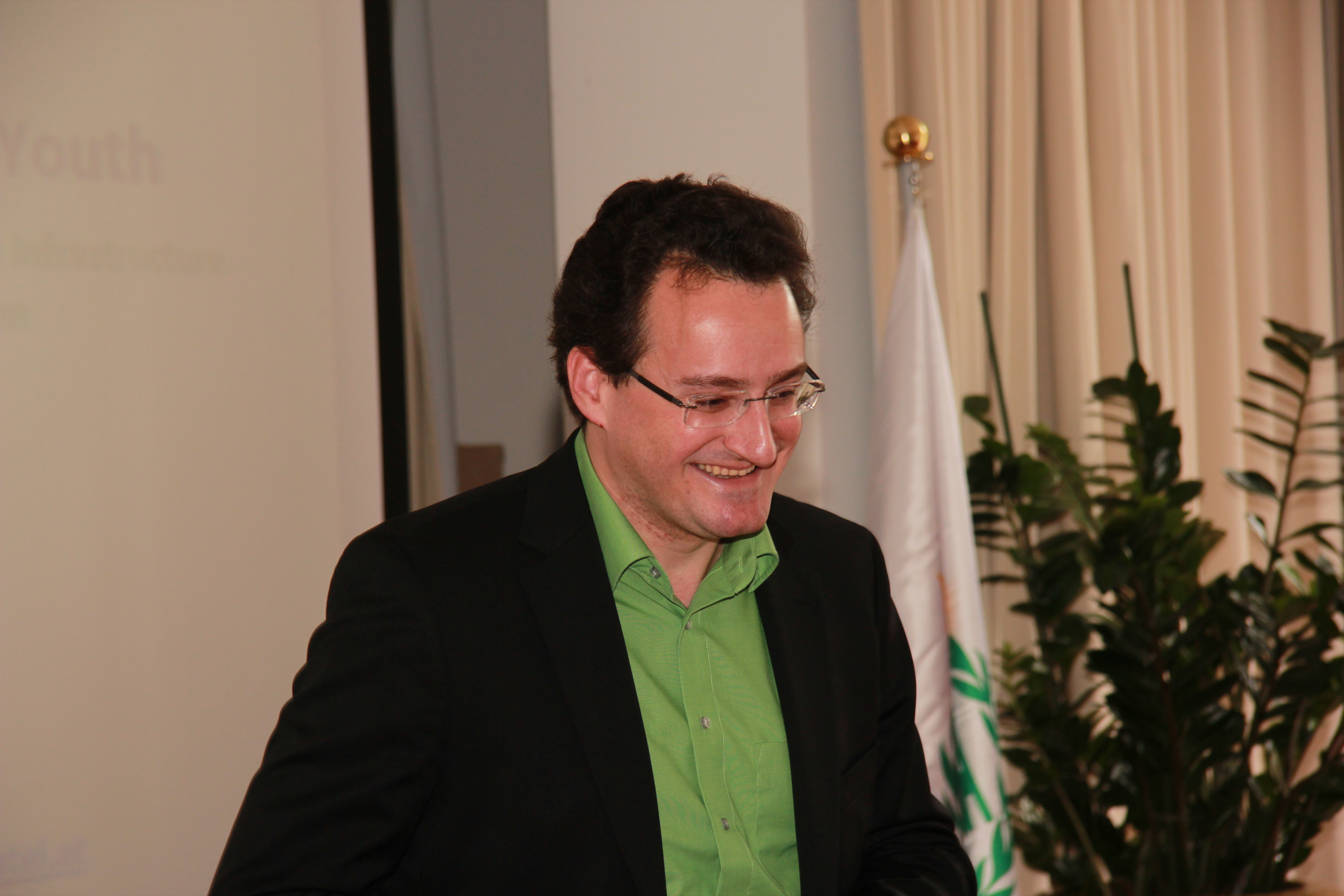 GloCha conference 2014 in Klagenfurt, Carinthia